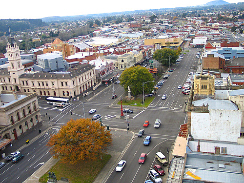 Looking East over first block of the Sturt Street Gardens in Ballarat, Australia